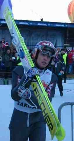 FIS Ski Jumping World Cup in Zakopane, 2003 Roar Ljøkelsøy